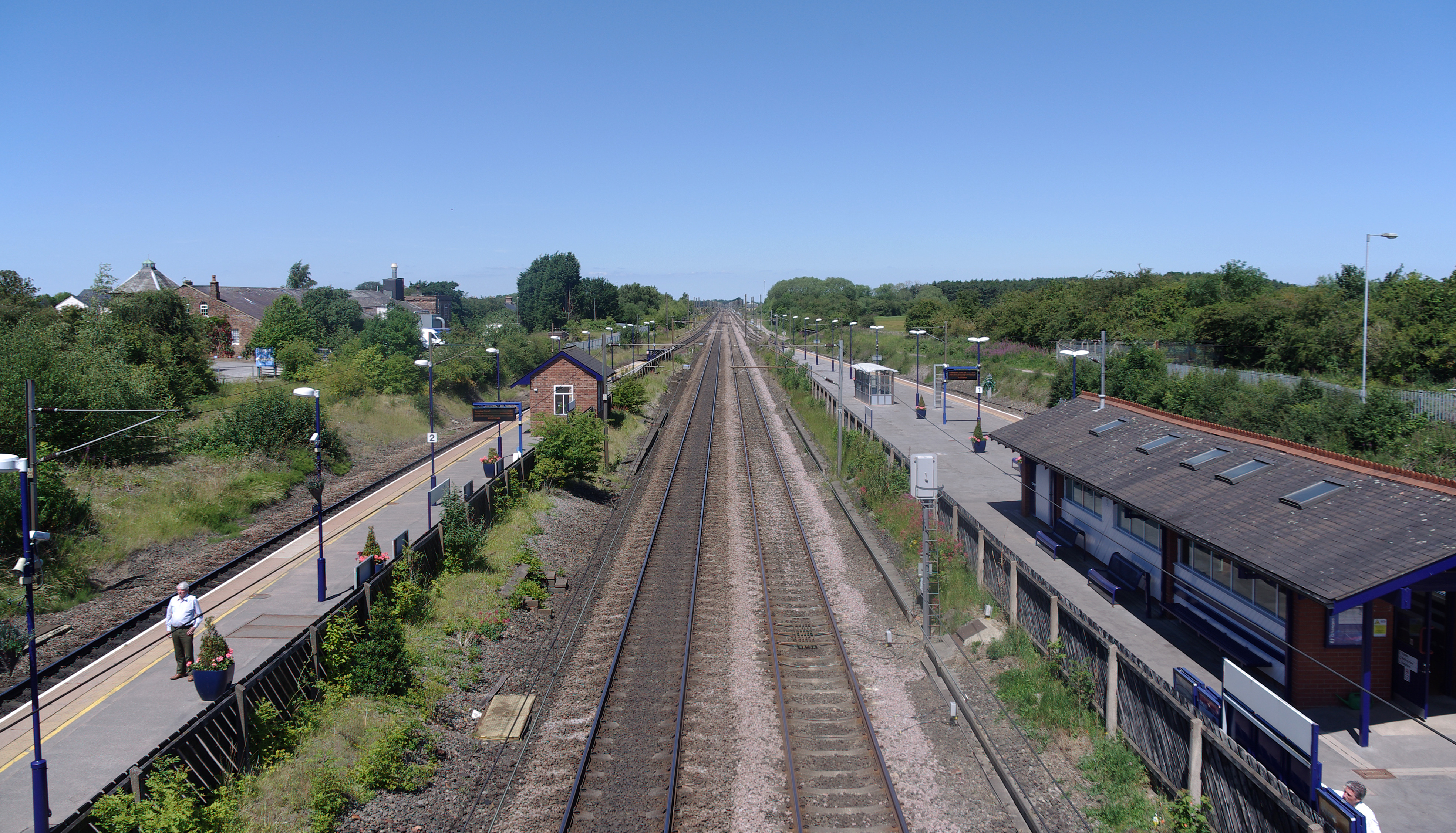 Thirsk railway station, looking north from the footbridge.